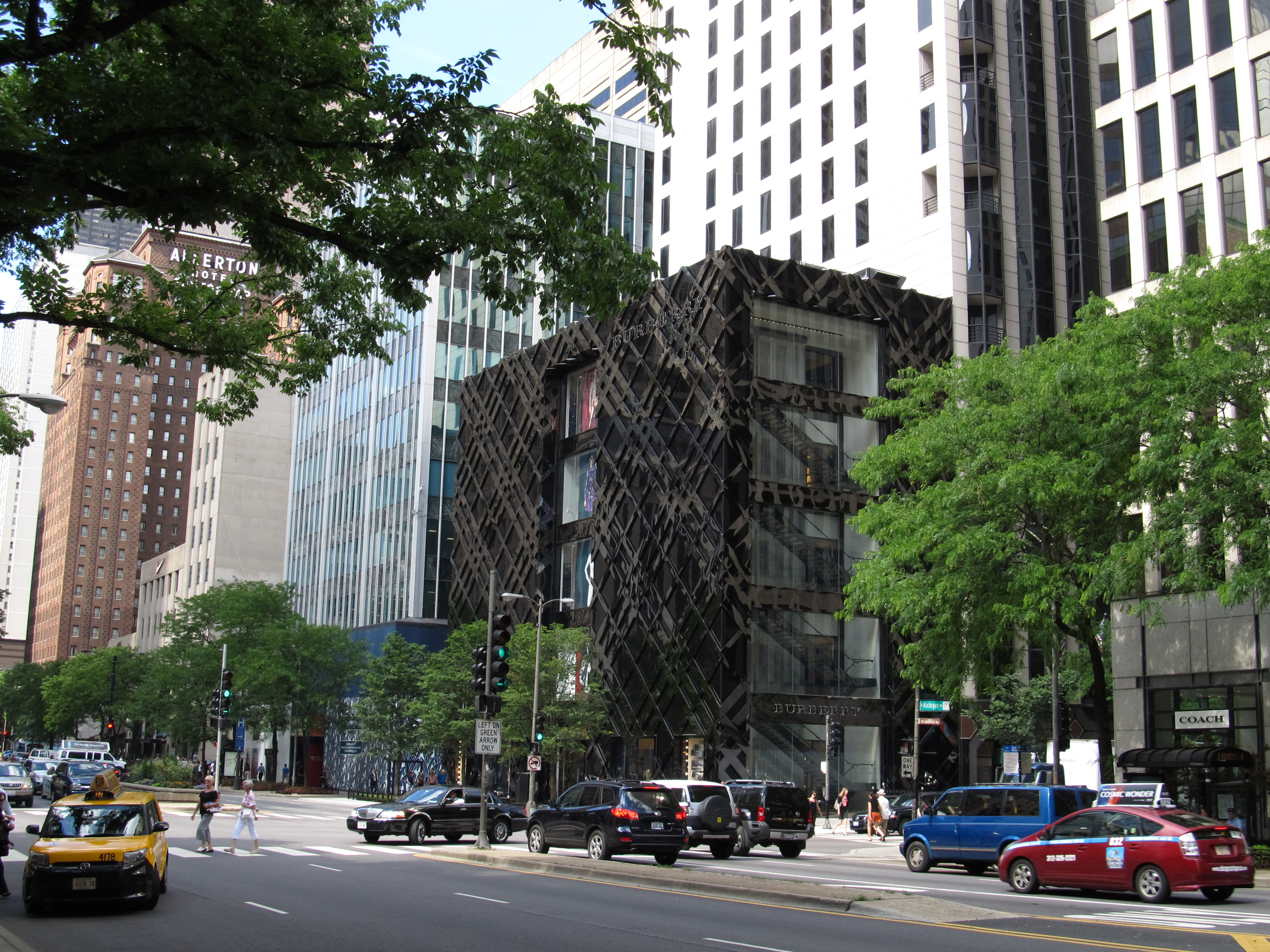 The Magnificent Mile, sometimes referred to as The Mag Mile, is a prestigious section of Chicago's Michigan Avenue, running from the Chicago River to Oak Street in the Near North Side. The district is located adjacent to downtown, and one block east of Rush Street, which is known for its nightlife. The Magnificent Mile serves as the main thoroughfare between Chicago's Loop business district and its Gold Coast. It also serves as the western boundary of the Streeterville neighborhood. Real estate developer Arthur Rubloff of Rubloff Company gave the nickname to one of the city's most prestigious residential and commercial thoroughfares in the 1940s. Currently Chicago's largest shopping district, various mid-range and high-end shops line this section of the street and approximately 3,100,000 square feet (290,000 m2) is currently occupied by retail stores, restaurants, museums and hotels. Several of the tallest buildings in the United States, such as the John Hancock Center and the Trump International Hotel and Tower, lie in the district. Numerous landmarks are located along the Magnificent Mile, such as the Wrigley Building, Tribune Tower, the Chicago Water Tower and the Allerton Hotel.